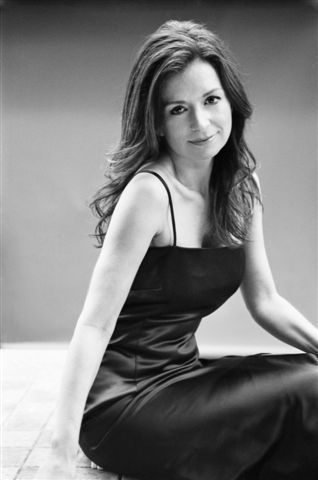 Janyse Jaud, Canadian actress and singer-songwriter